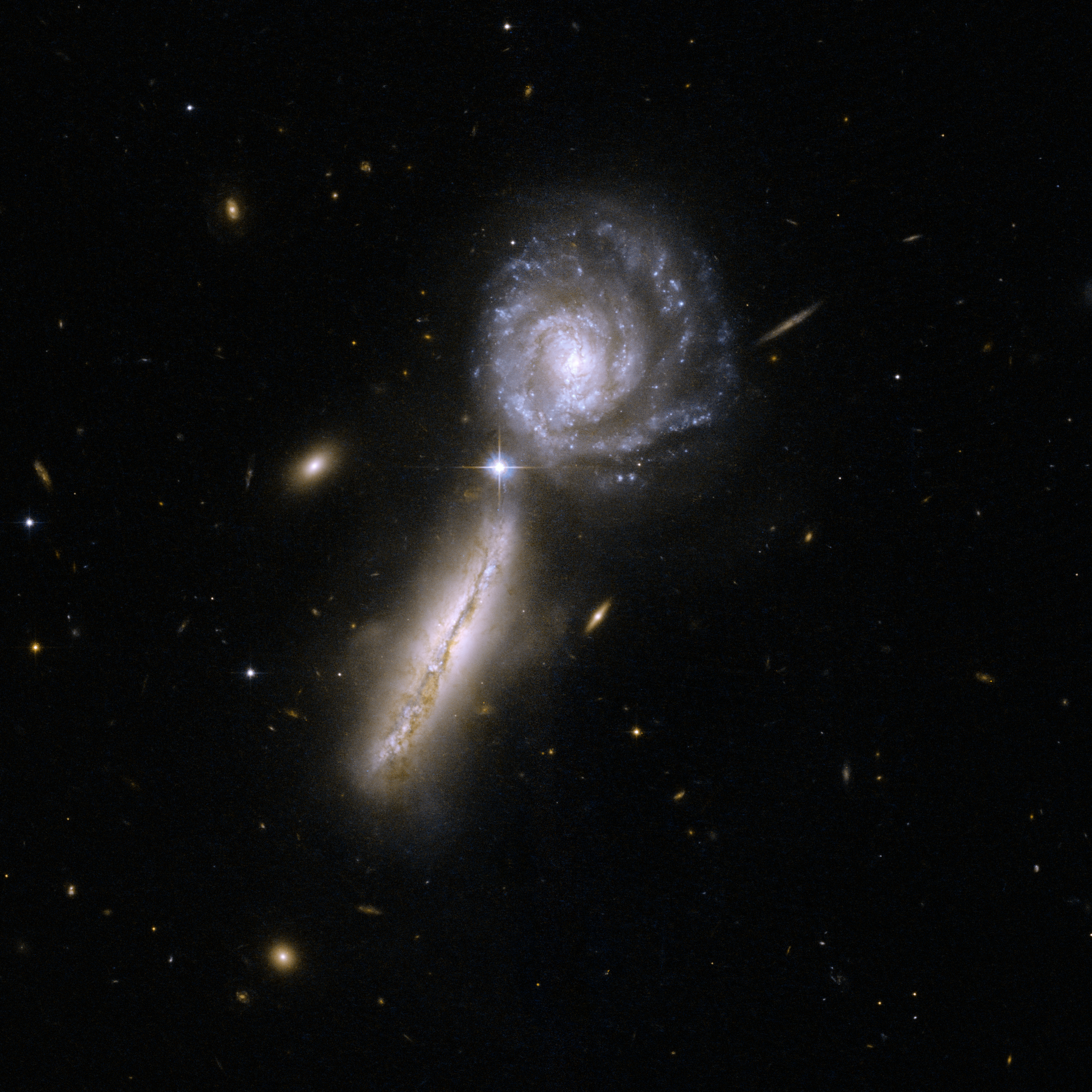 UGC 9618, also known as VV 340 or Arp 302 consists of a pair of very gas-rich spiral galaxies in their early stages of interaction: VV 340A is seen edge-on to the left, and VV 340B face-on to the right. An enormous amount of infrared light is radiated by the gas from massive stars that are forming at a rate similar to the most vigorous giant star-forming regions in our own Milky Way. UGC 9618 is 450 million light-years away from Earth, and is the 302nd galaxy in Arp's Atlas of Peculiar Galaxies. This image is part of a large collection of 59 images of merging galaxies taken by the Hubble Space Telescope and released on the occasion of its 18th anniversary on 24th April 2008. About the objectObject nameUGC 9618, VV 340, Arp 302, VV 340A, VV 340B, KPG 446BObject descriptionInteracting GalaxiesPosition (J2000)14 57 00.90 +24 37 01.7ConstellationBo tesDistance450 million light-years (150 million parsecs)About the dataData descriptionThe Hubble image was created using HST data from proposal 10592: A. Evans (University of Virginia, Charlottesville/NRAO/Stony Brook University)InstrumentACS/WFCExposure date(s)January 6, 2002Exposure time33 minutesFiltersF435W (B) and F814W (I)